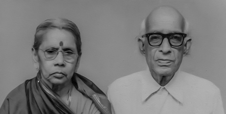 KV Krishna Ayyar and his wife Chellamal